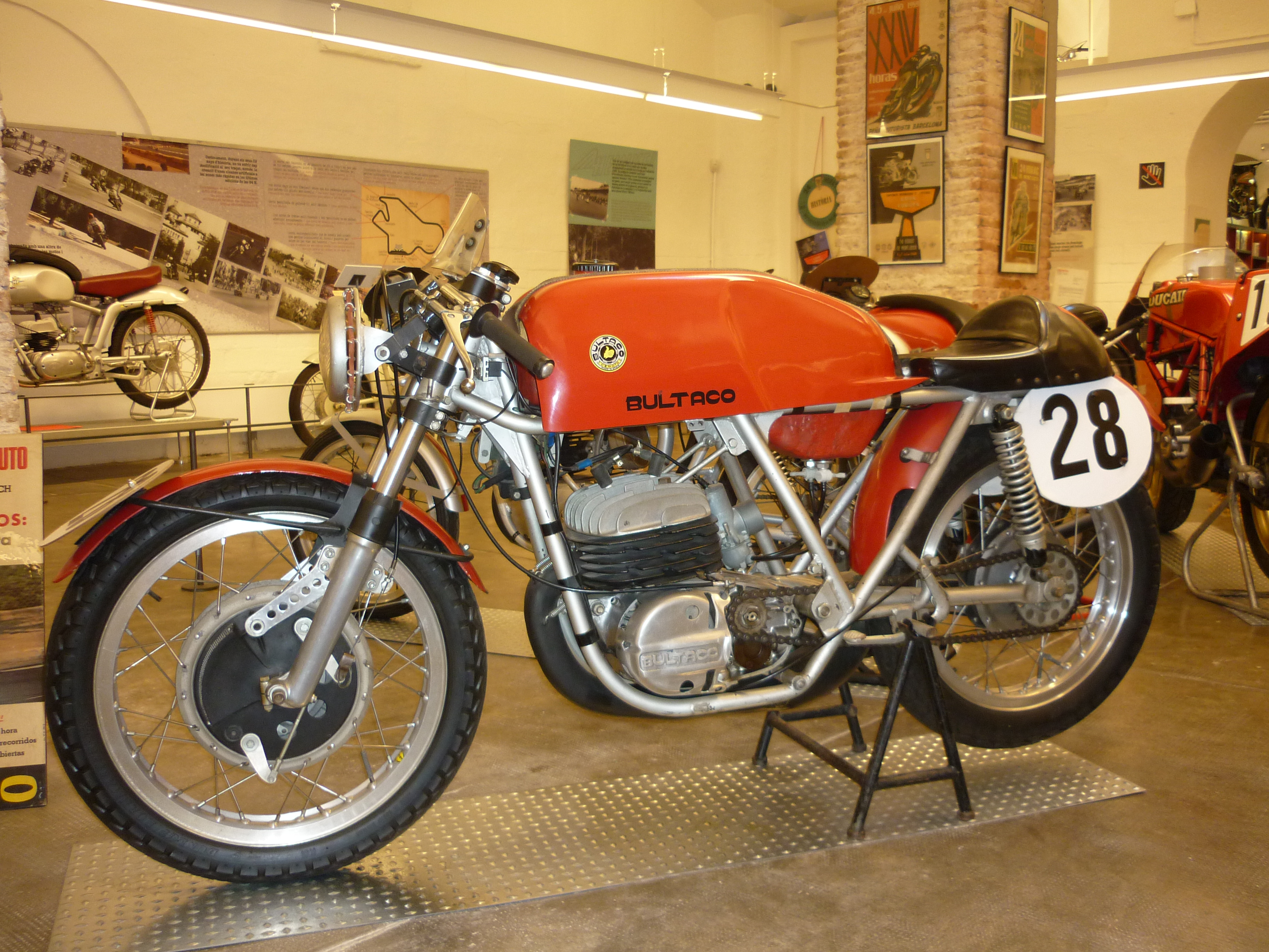 Bultaco 360cc. On this bike, Salvador Cañellas and Carles Rocamora won the XV 24 Hours of Montjuïc, on 1969